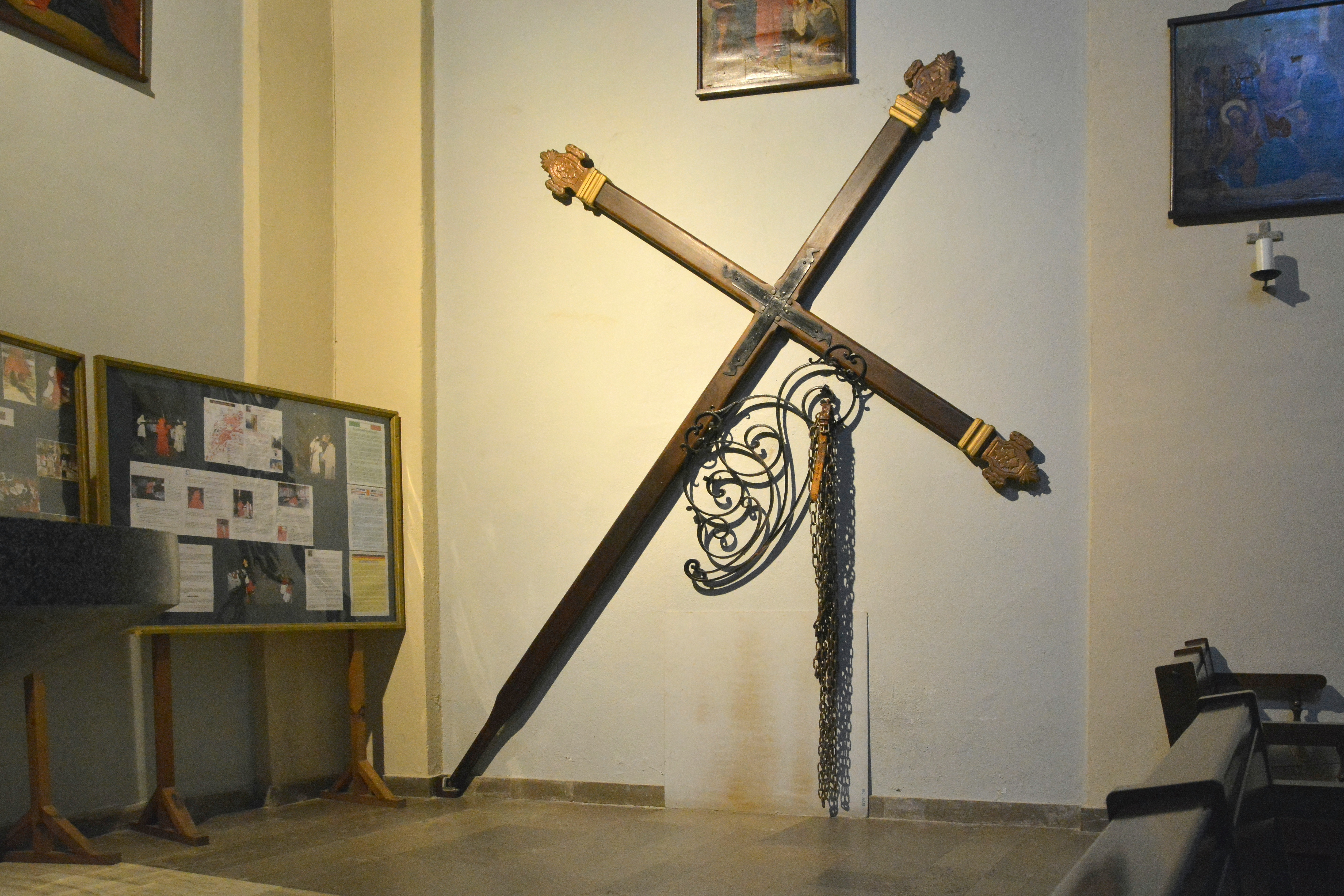 In the church Sainte-Marie there is a cross which is used for the Catenacciu. This is a procession on Good Friday where an enchained man (the catenacciu) is bearing this cross for penitence through the streets of Sartène.